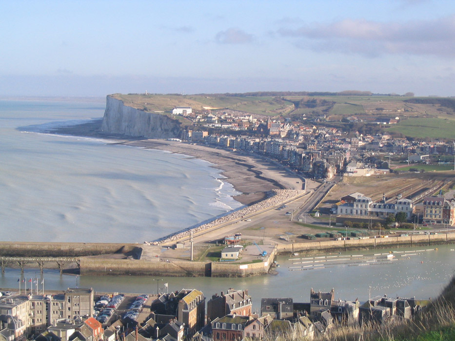 View of Mers-les-Bains seafront (France).